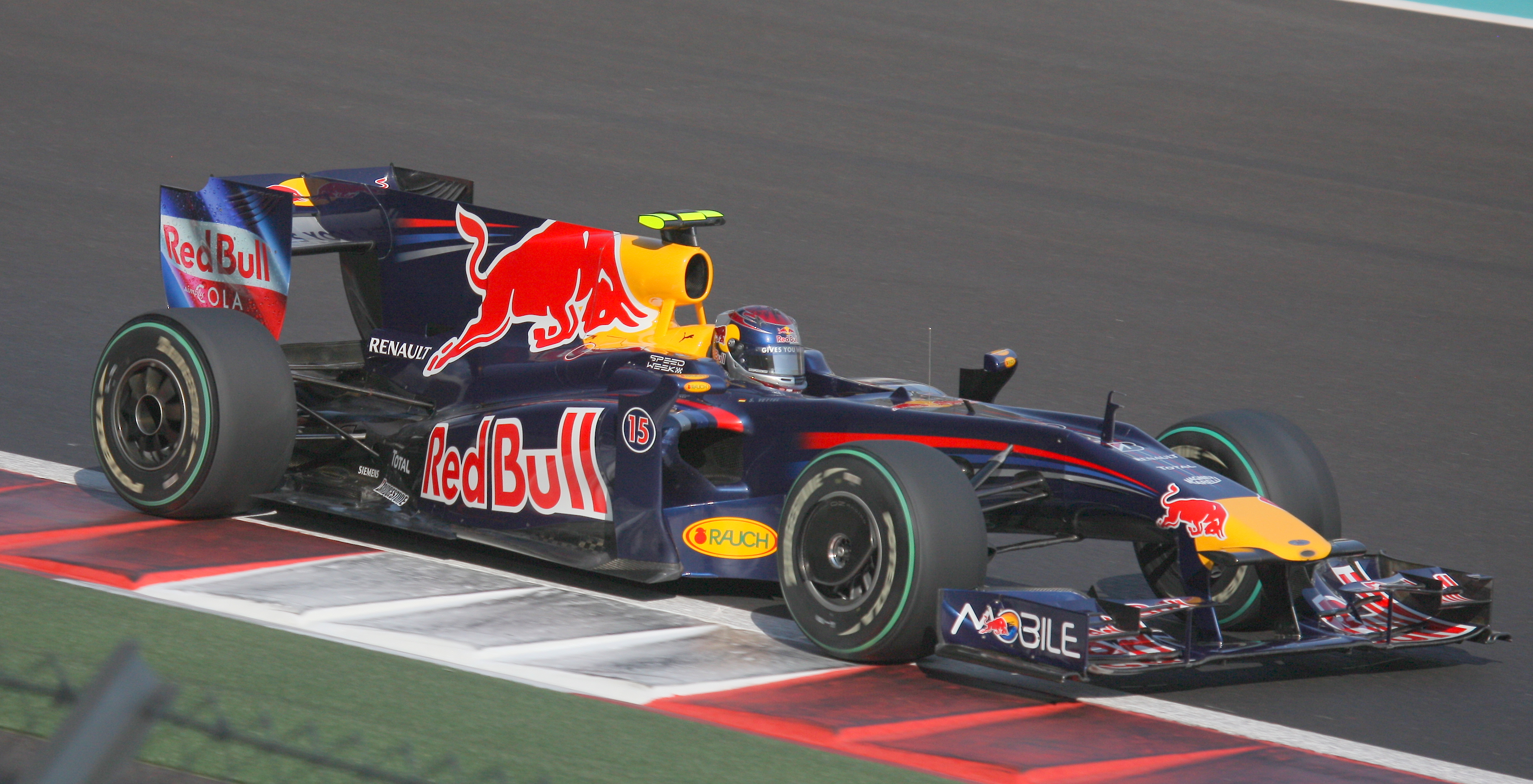 Sebastian Vettel Red Bull RB5 on Saturday at 2009 Abu Dhabi Grand Prix